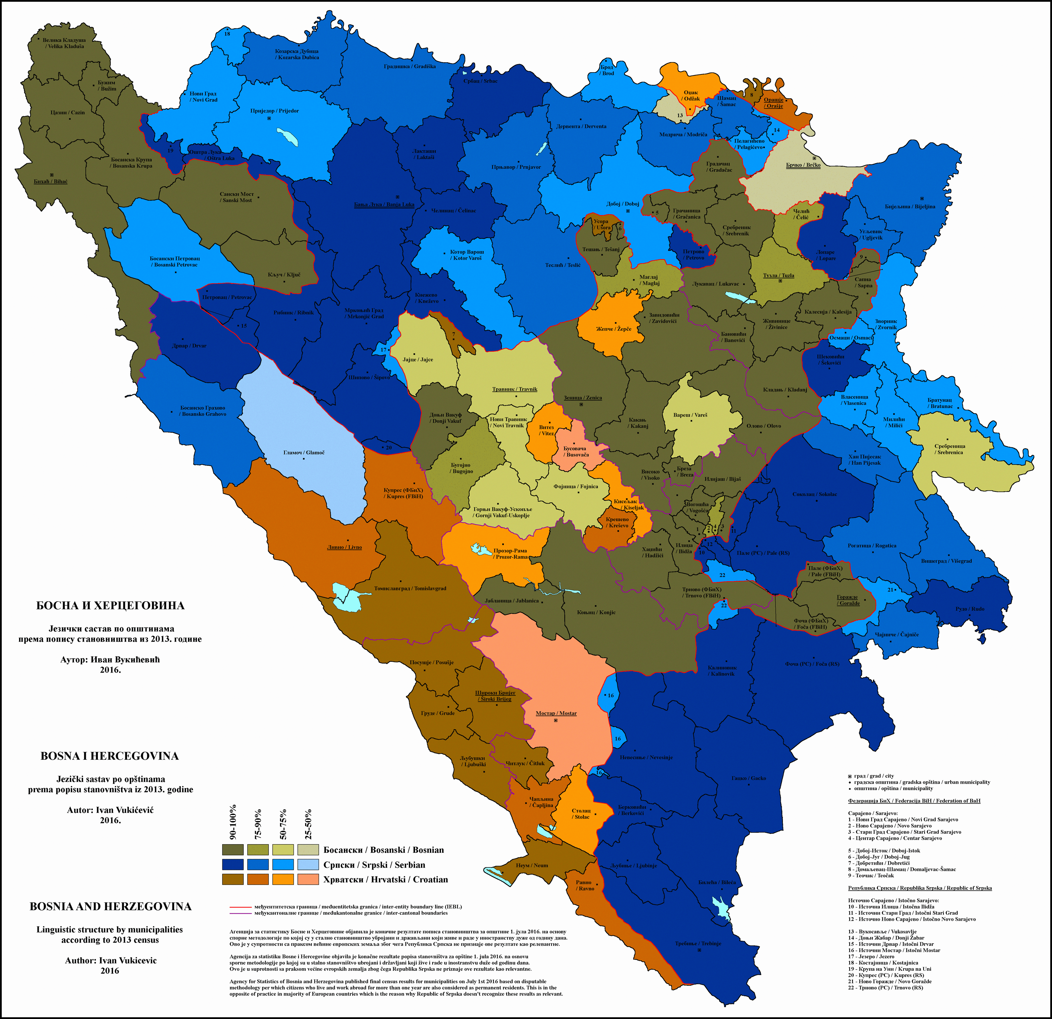 Linguistic structure of Bosnia and Herzegovina by municipalities 2013. Authorː Ivan Vukicevic - Sources: - Census of population, households and dwellings in Bosnia and Herzegovina, 2013 - Final results, Agency for statistics of Bosnian and Herzegovina, 1st of July 2016. - EU legislation on the 2011 Population and Housing Censuses, Eurostat, 2011. Recommendations for status of permanent residents followed by majority of EU member and candidate countries on page 66, Topic: Place of usual residence, paragraph (d)ː An institution shall be taken as the place of usual residence of all its residents who at the time of the census have spent, or are likely to spend, 12 months or more living there. - Public announcement, 4th of July 2016, Republic of Srpska Institute of Statistics, 4th of July 2016. With this announcement institute disputes the methodology used by Agency for statistics of Bosnia and Herzegovina.